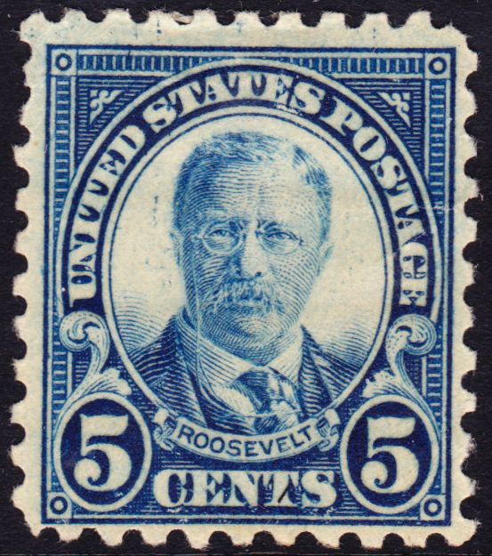 US Postage stamp: Theodore Roosevelt, Issue of 1925, 5c